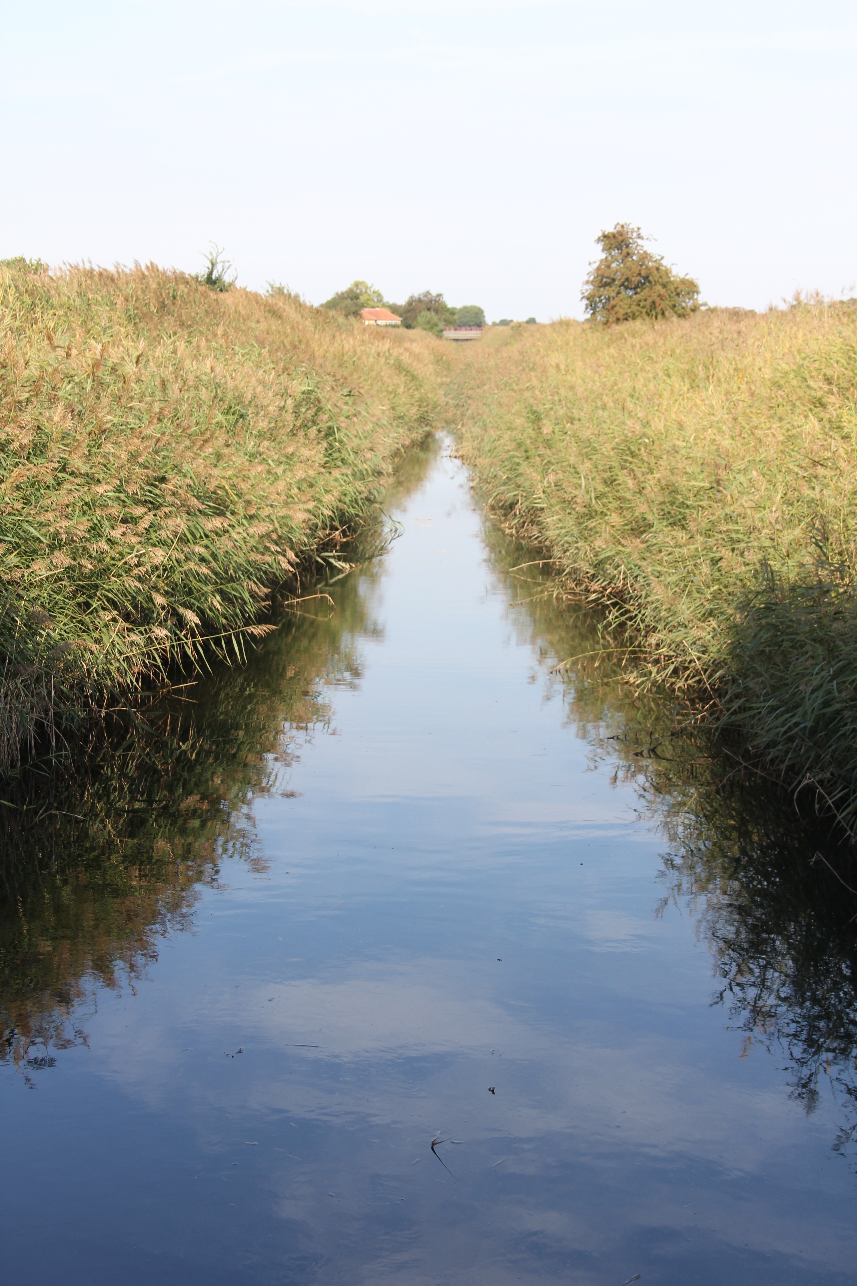 Canal at Avnø